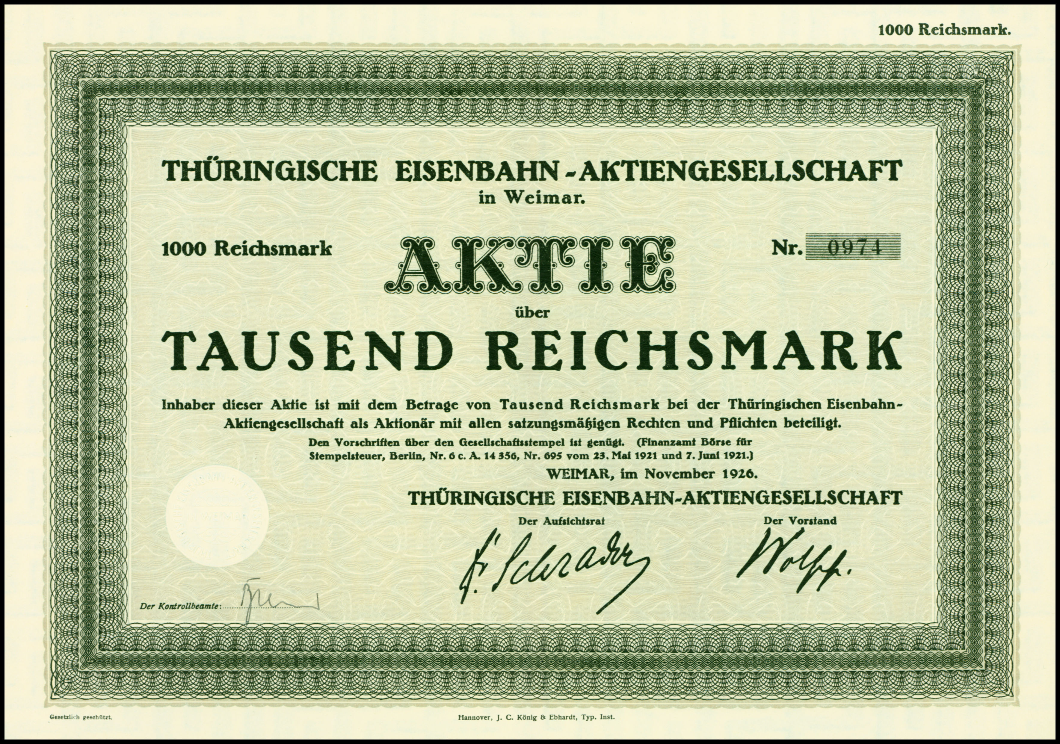 Share of the Thüringische Eisenbahn AG, issued November 1926